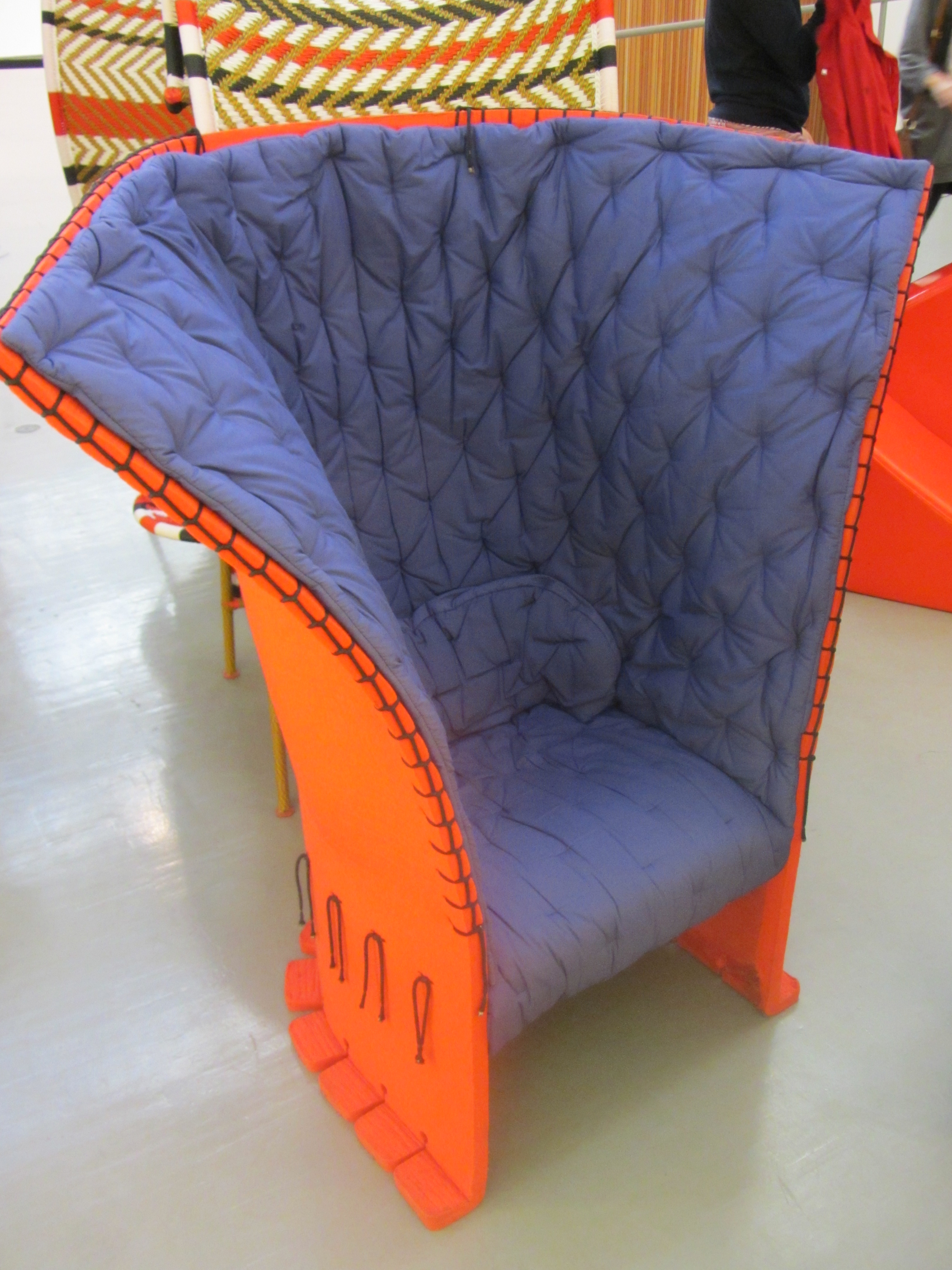 I Feltri, designed by Gaetano Pesce for CASSINA (1987). Photo made at Triennale Design Museum of Milan (free photo day)